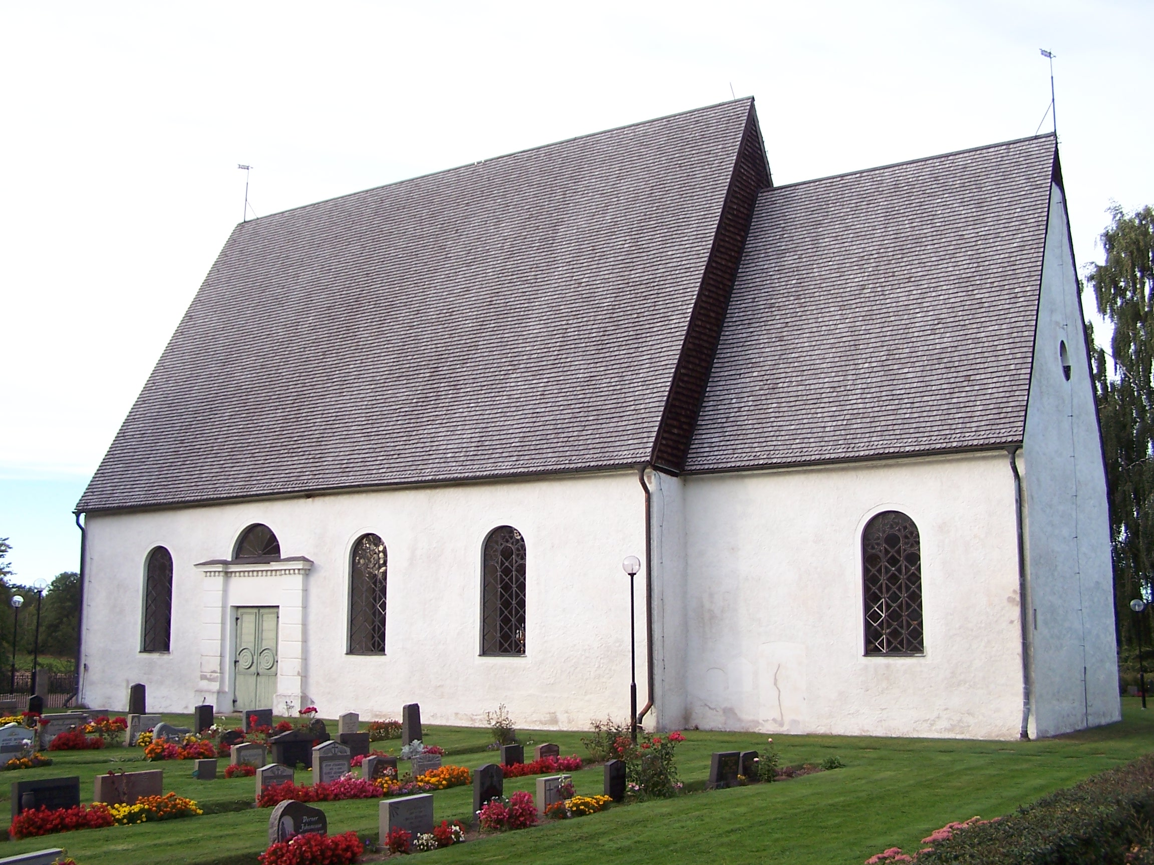 Mortorp church, Sweden - Exterior